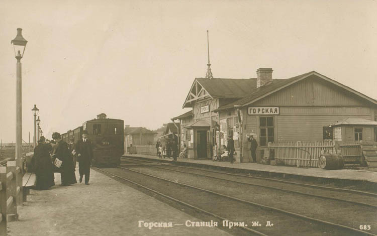 "Gorskaya"-Station Primorskoi Rail Road (line)